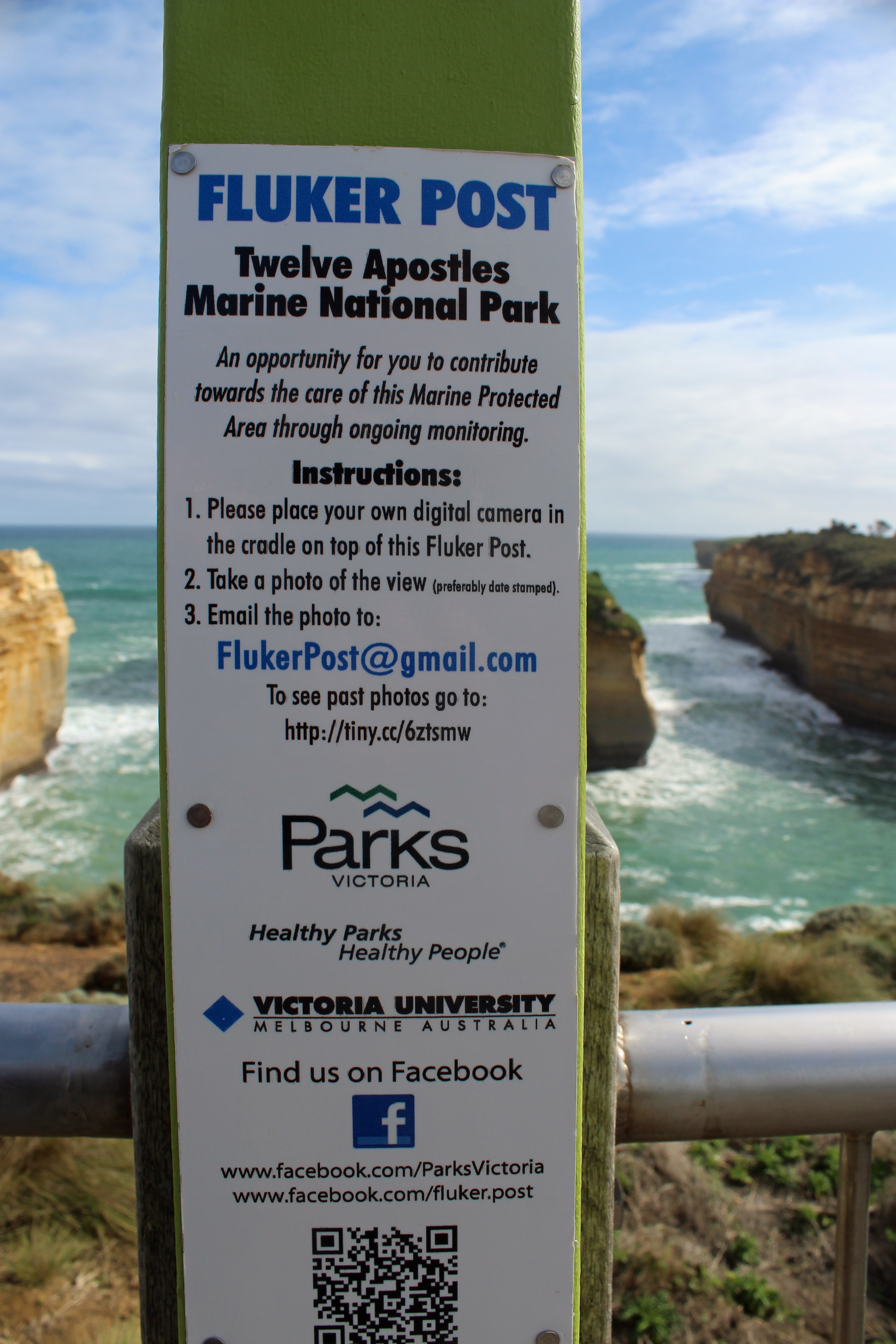 The purpose of the Fluker Post Research Project is to record changes in the environemnt. Members of the public are invited to photograph a specfic point and to e-mail their picuture to the project organisers. This image shows the camera cradle and public information at location MP02 ([Collapsed] Island Archway at the Twelve Apostles Marine National park) (Website is here).